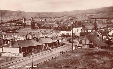 Old postcard of Llwynypia Hospital in the Rhondda Valley